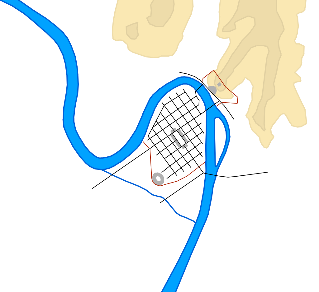 Verona